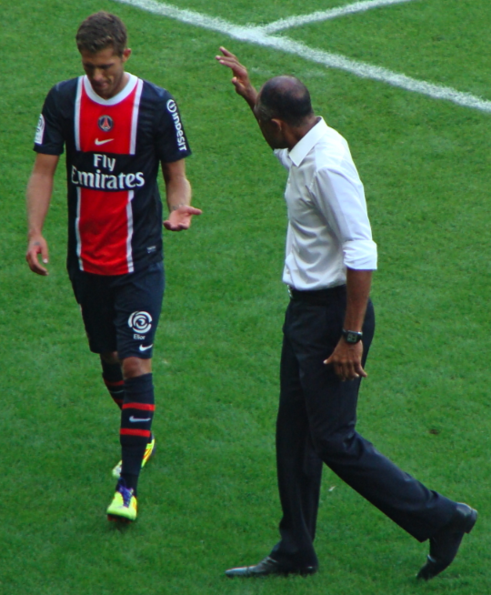 Jéremy Menez, French international Footballer and his coach, Antoine Kombouaré